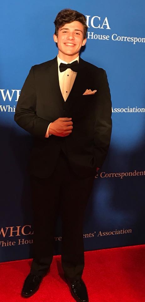 Alfonso Calderon at the 2018 White House Correspondent Dinner